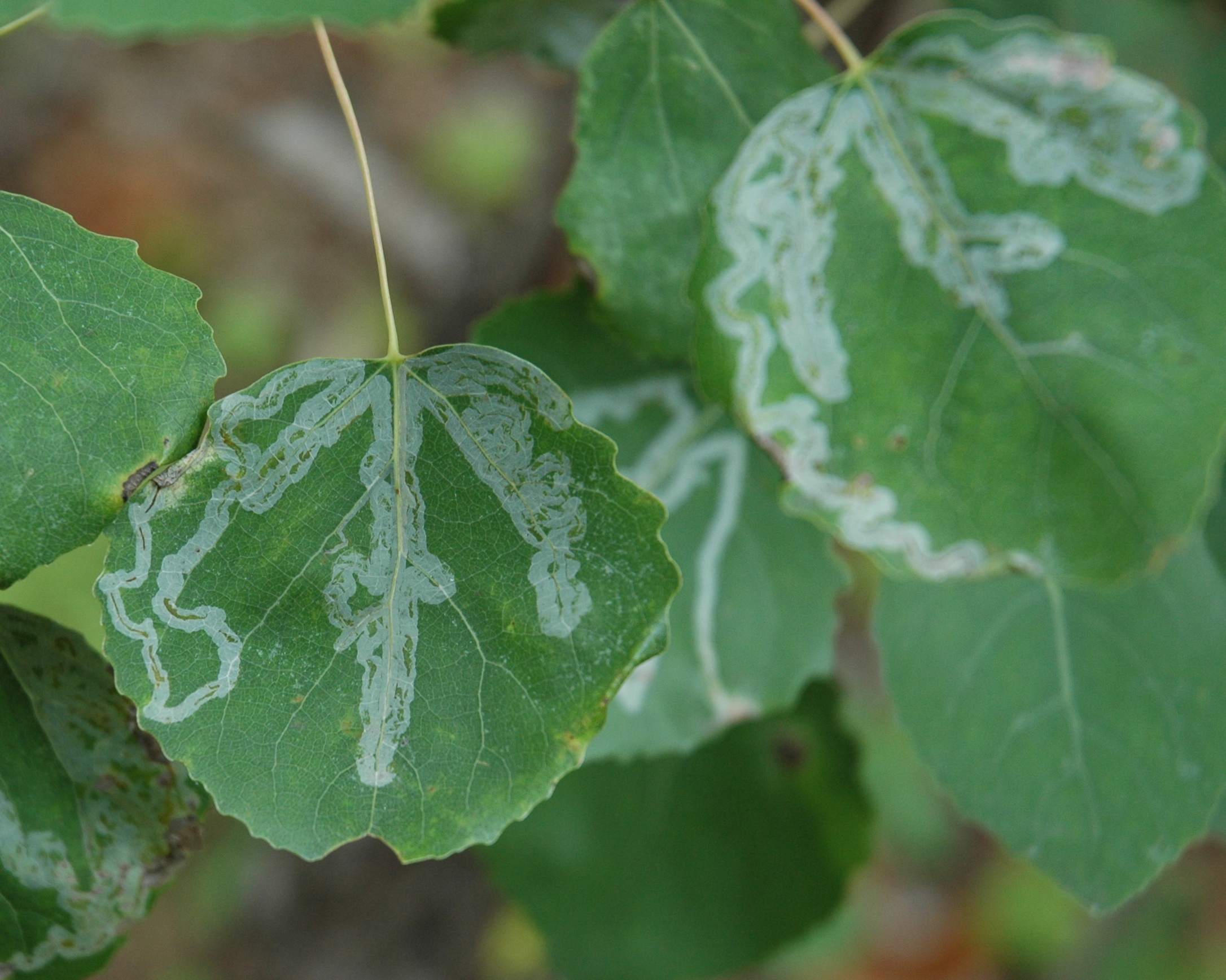 The mines of Phyllocnistis labyrinthella on a leaf from an aspen. My own photography, taken in Røyken, Norway. Photographer's name Kjetil Lenes